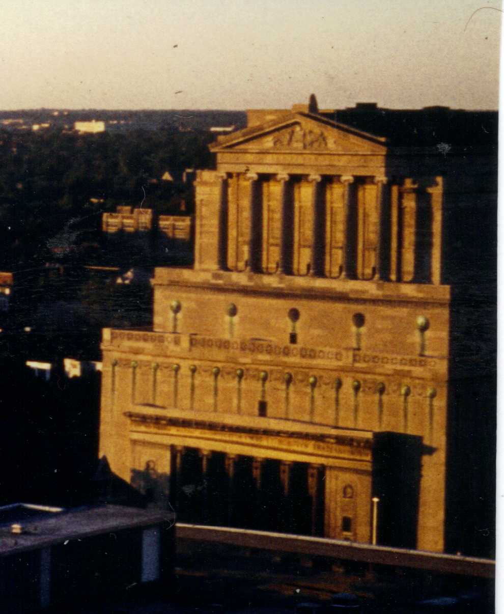 New Masonic Temple, midtown St. Louis, Mo, Lindell Blvd